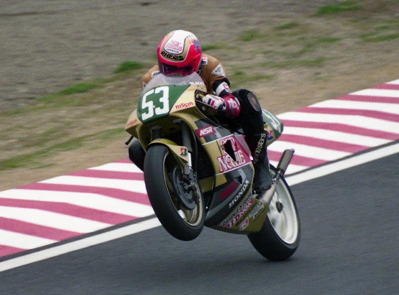 Nobuatsu Aoki, at Japanse Grand Prix 1992